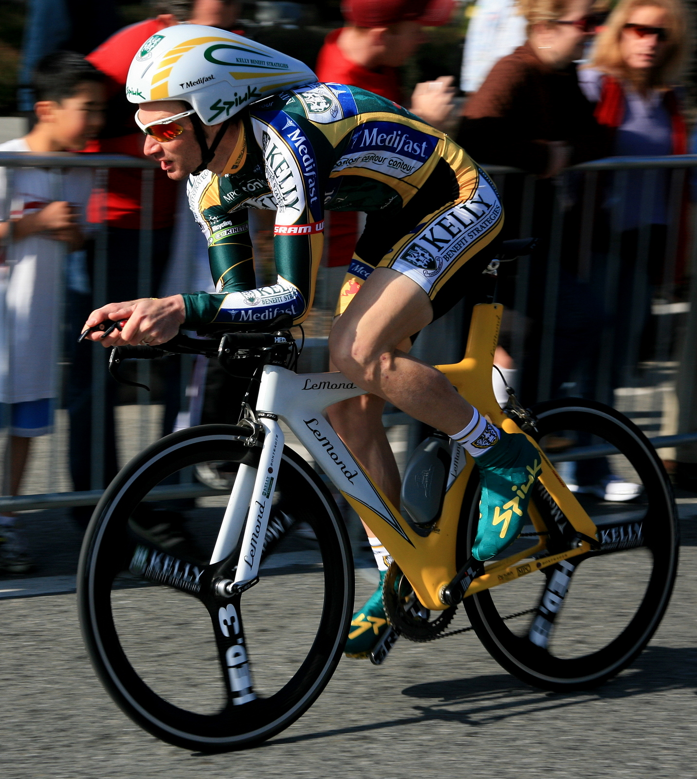 Andrew Bajadali at the Prologue of the Tour of California in Palo Alto